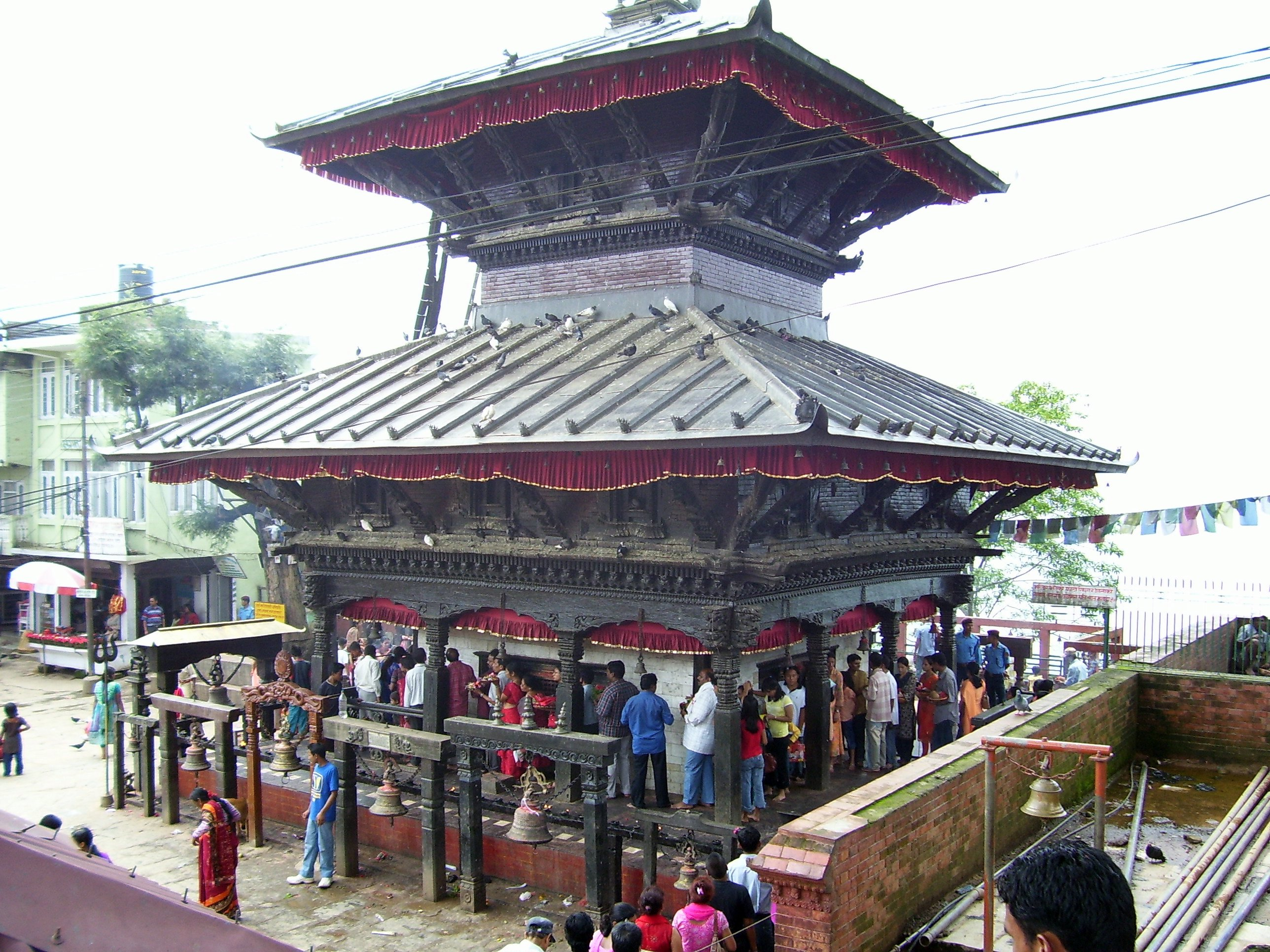 Image of Manakamana Temple and queue of devotees